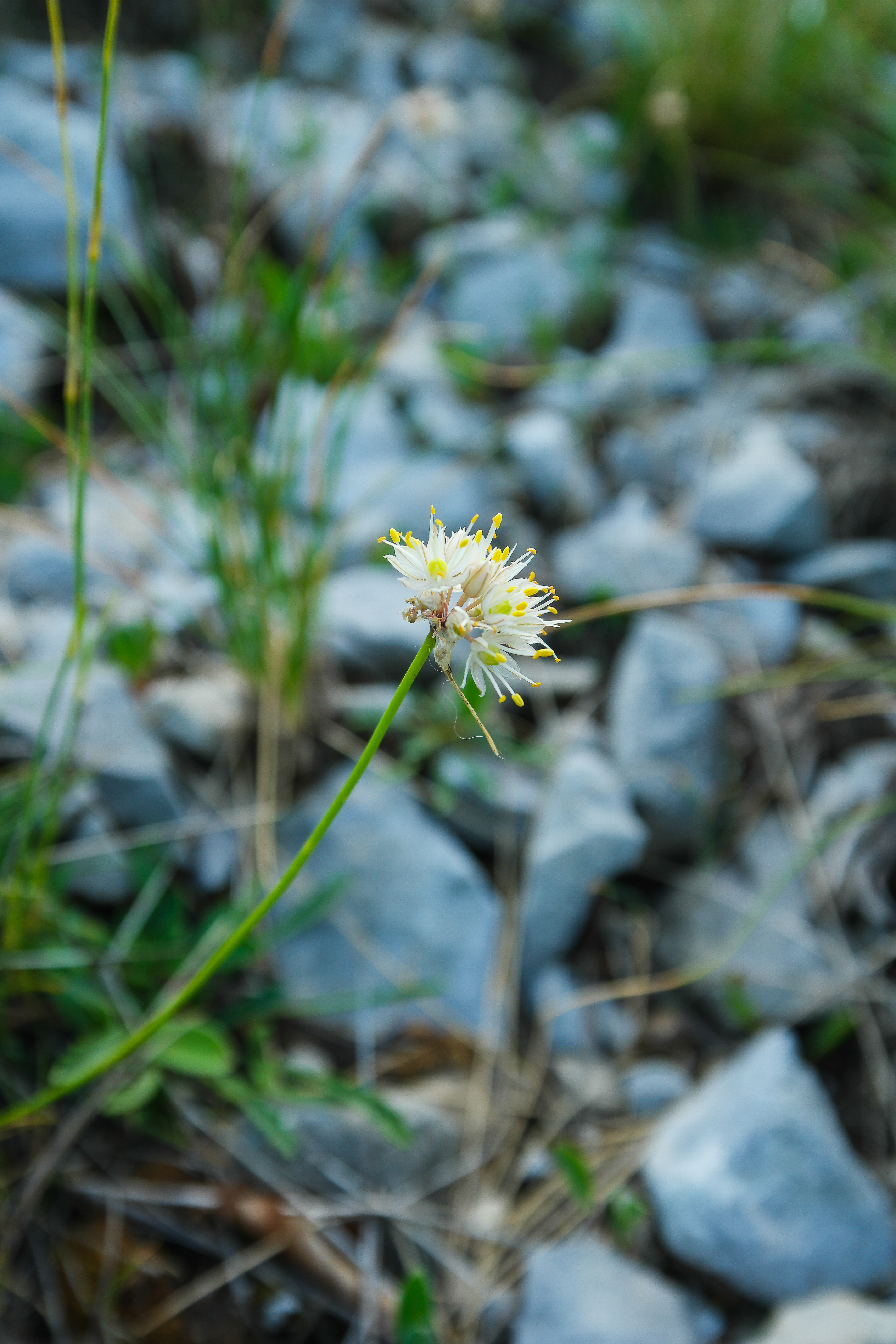 Allium horvatii Trinajstic, endemic Allium form the subadriatic Dinaric alps. Here from Jastrebica, Mt. Orjen in Montenegro at 1600 m